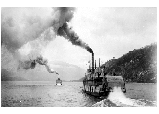 Sternwheeler Kuskanook overtaking another sternwheeler, identified as Moyie or as International, on Kootenay Lake.